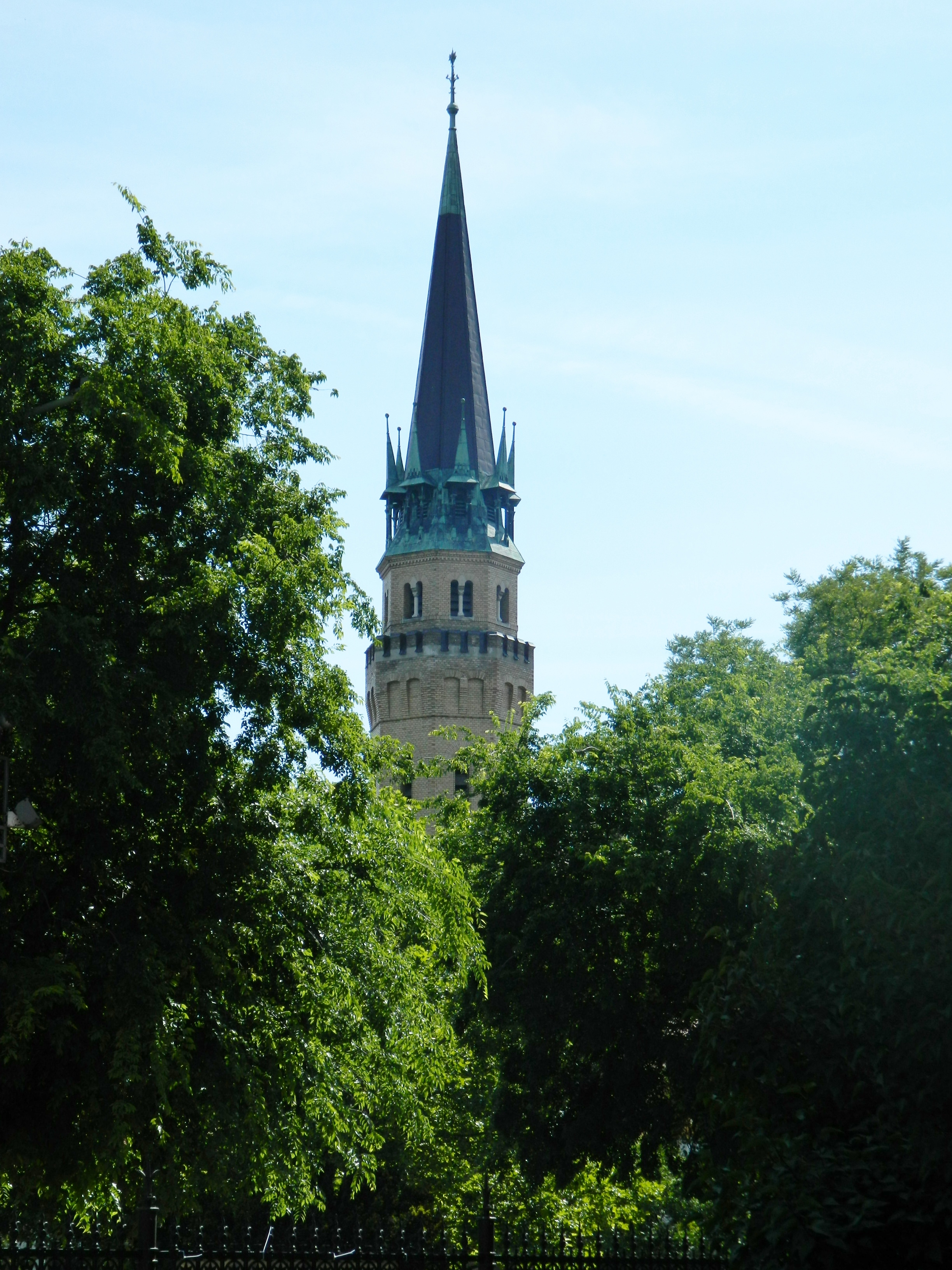 Lutheran Church in Cegléd, Built in 1896, architect: Ottó Sztehlo